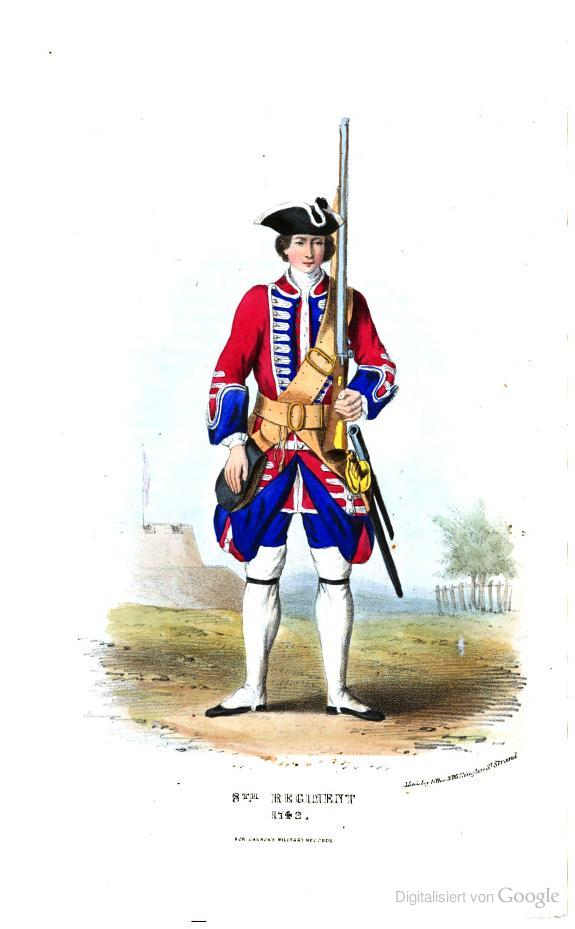 Soldier of the 8th regiment (1742)